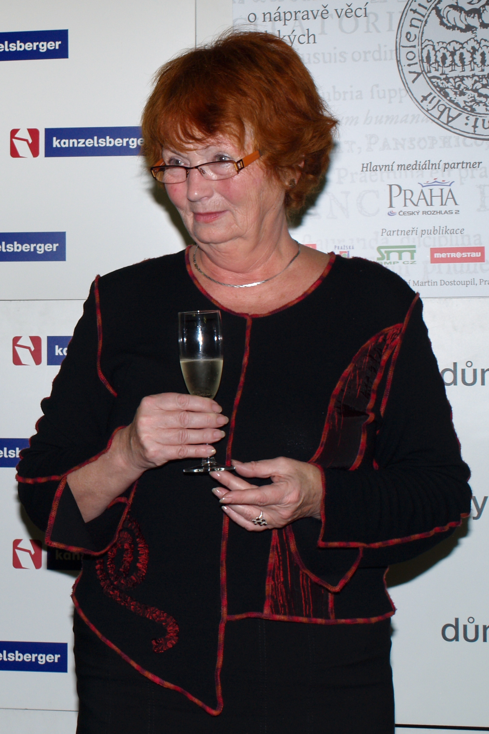 Marie Kousalíková, Czech local politician